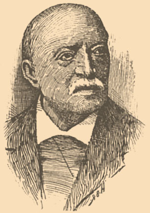 Illustration from Brockhaus and Efron Jewish Encyclopedia (1906—1913). Joseph Halévy.